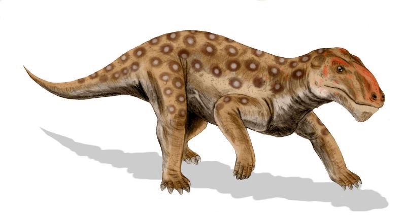 Lycaenops, a gorgonopsid from the Upper Permian of South Africa, pencil drawing.